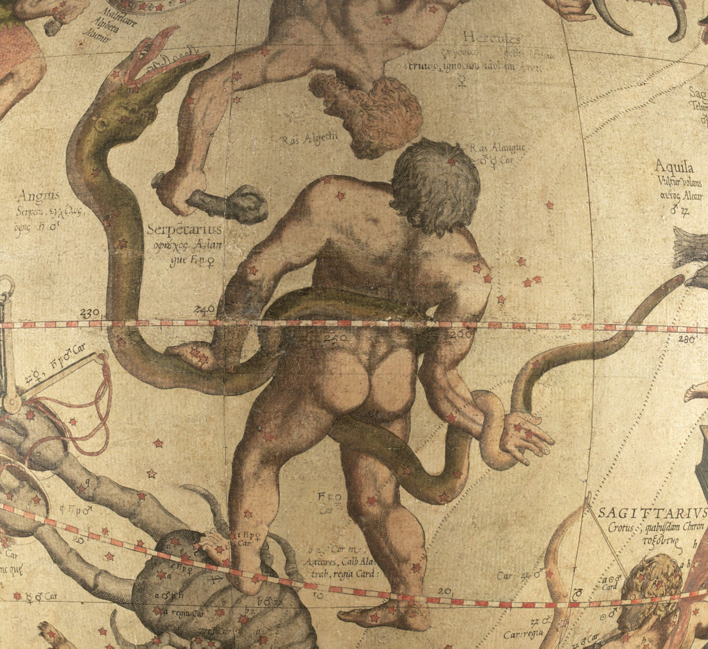 Ophiucus and Serpens constellations from the Mercator celestial globe.